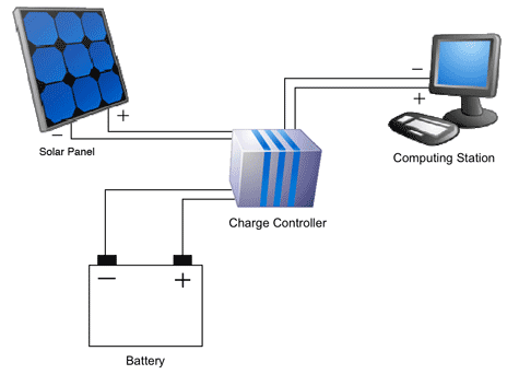 Desktop computer powered by battery system which is charged by solar panels